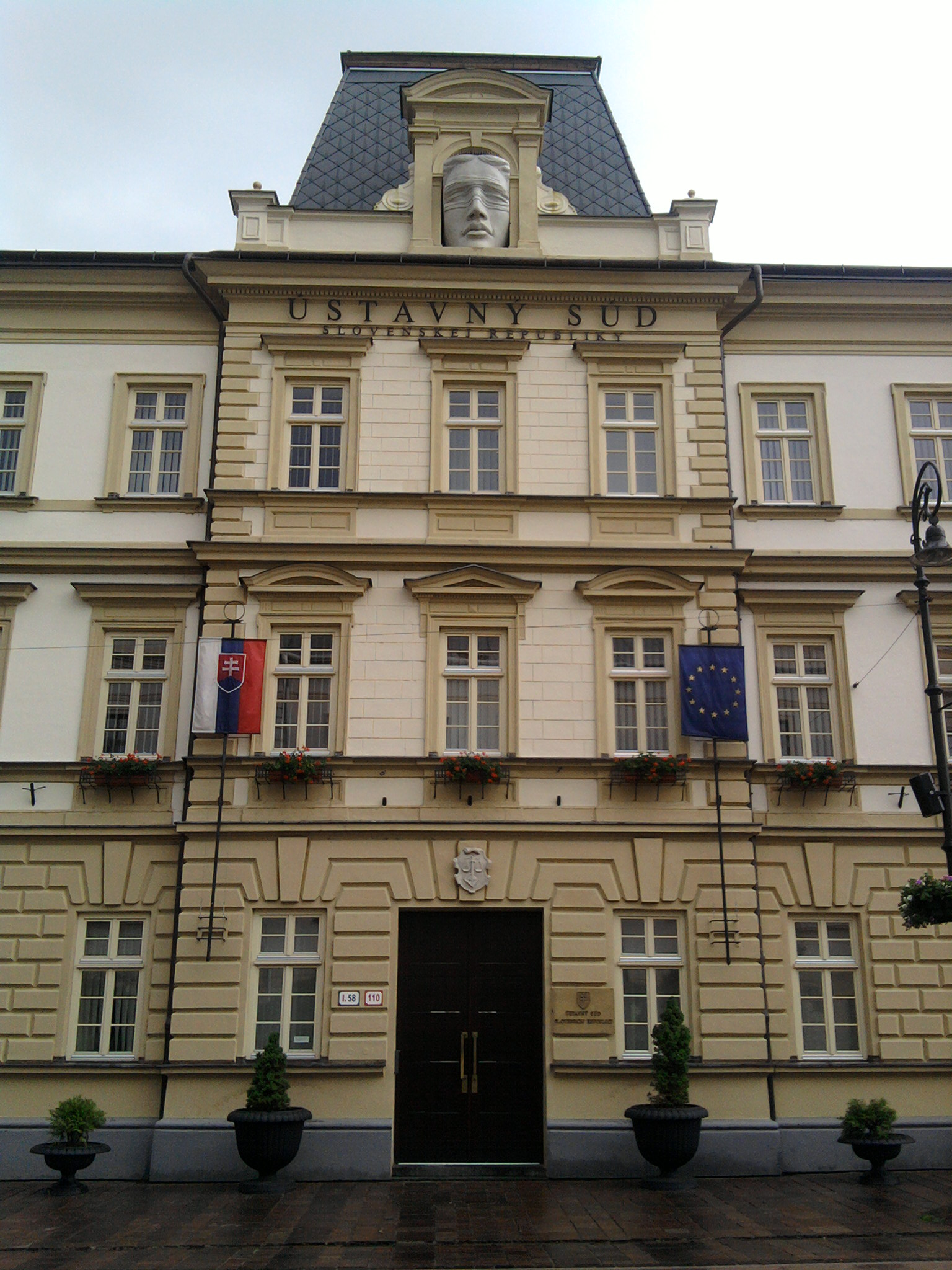 Constitutional court of Slovak republic